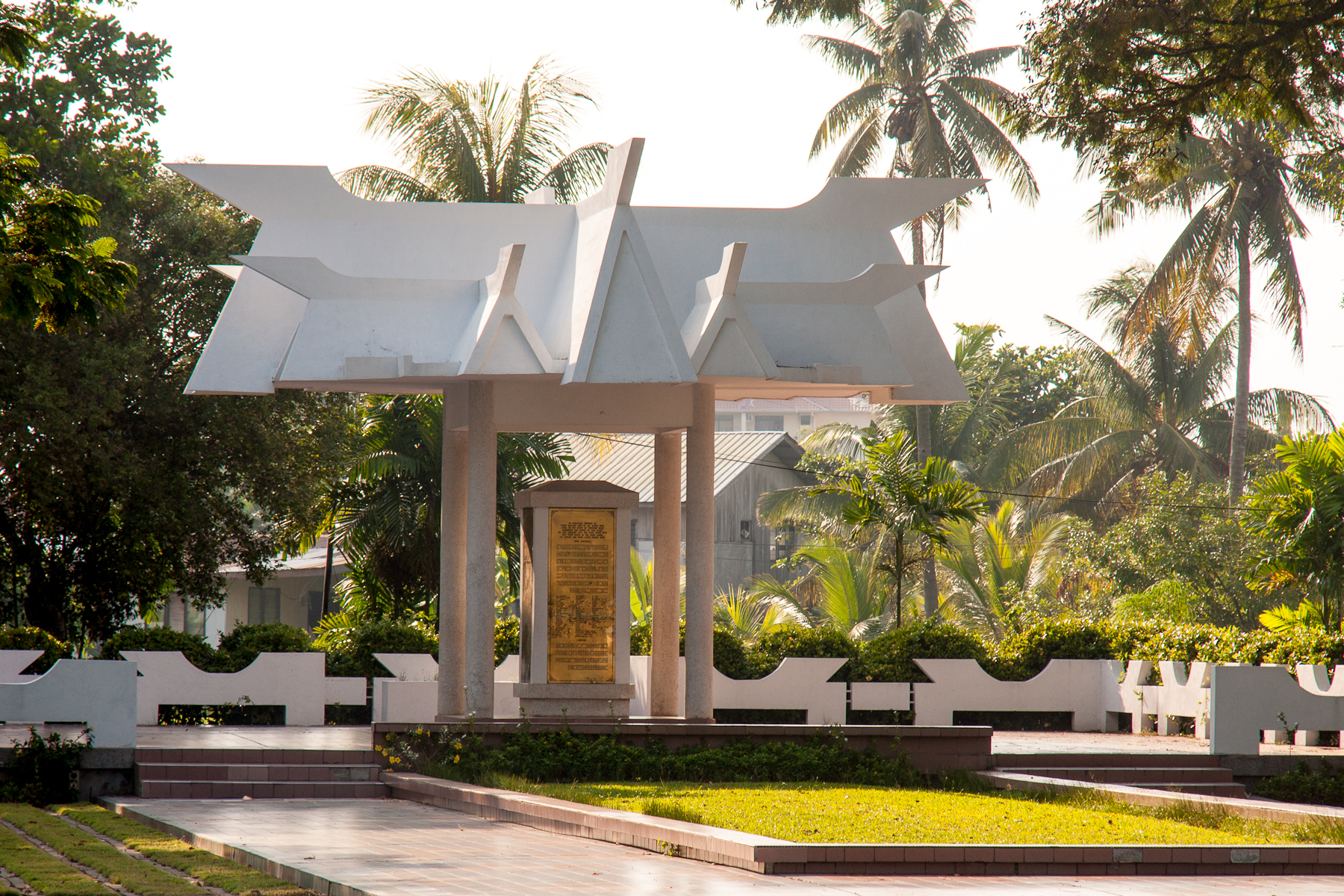 Kg. Petagas, District Putatan: Petagas War Memorial